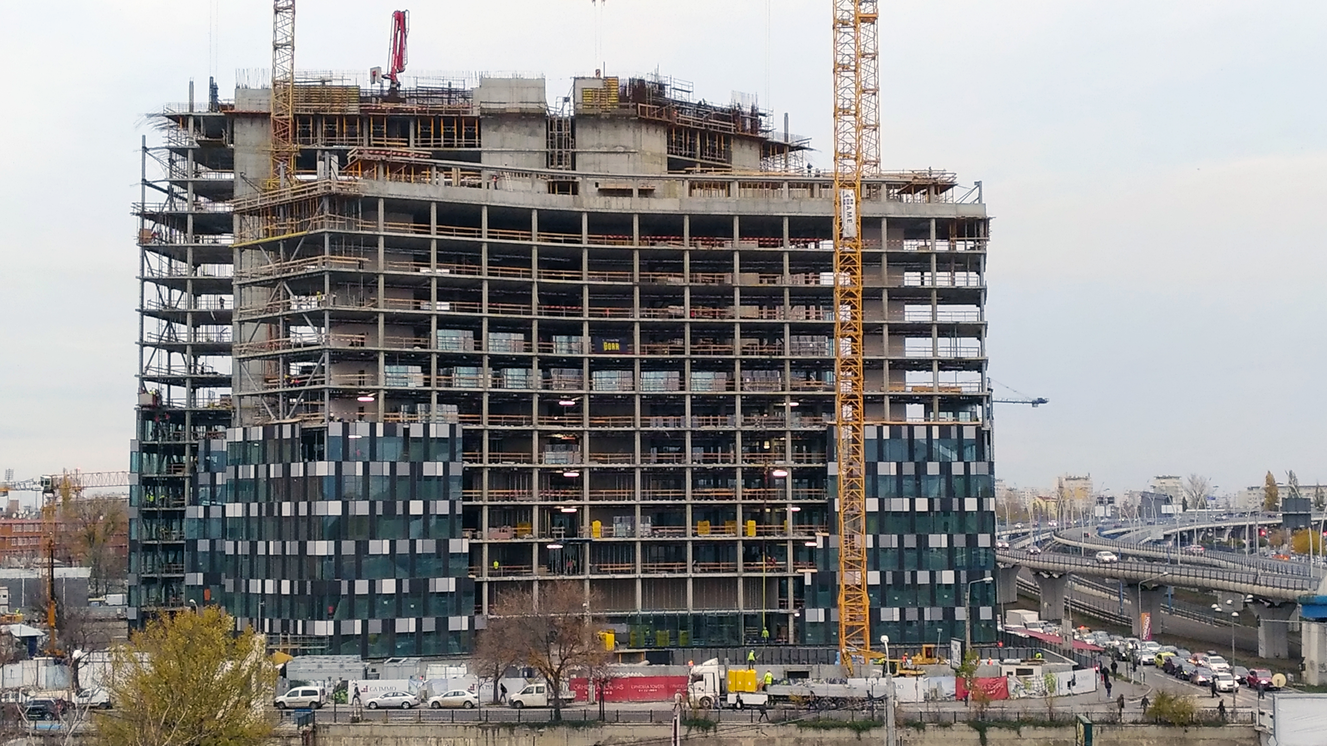 Orhideea Tower under construction. Bucharest, Romania, nov 2017.